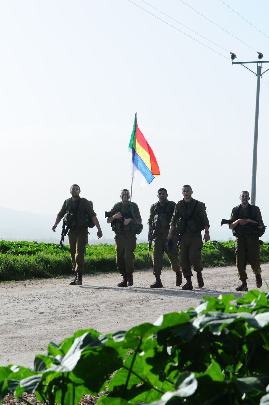 The "Herev" (Sword) Battalion, comprised of Druze, Jewish and Christian soldiers, are an elite unit specially trained in the Northern Command. The Israel Defense Forces Facebook The Israel Defense Forces blog The Israel Defense Forces website Follow us on Twitter